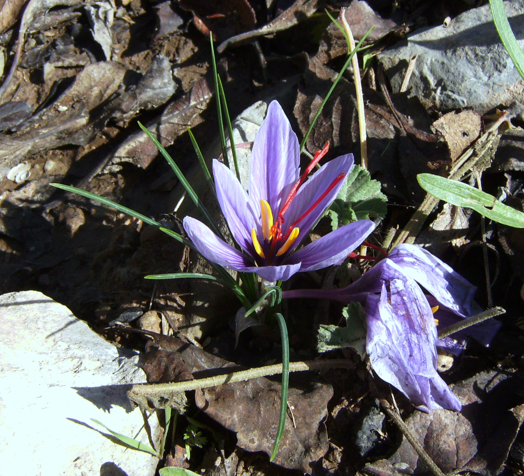 Saffron plant in flower, Castelltallat, Catalonia, 41º 47' N 1º 38' E 80 m asl